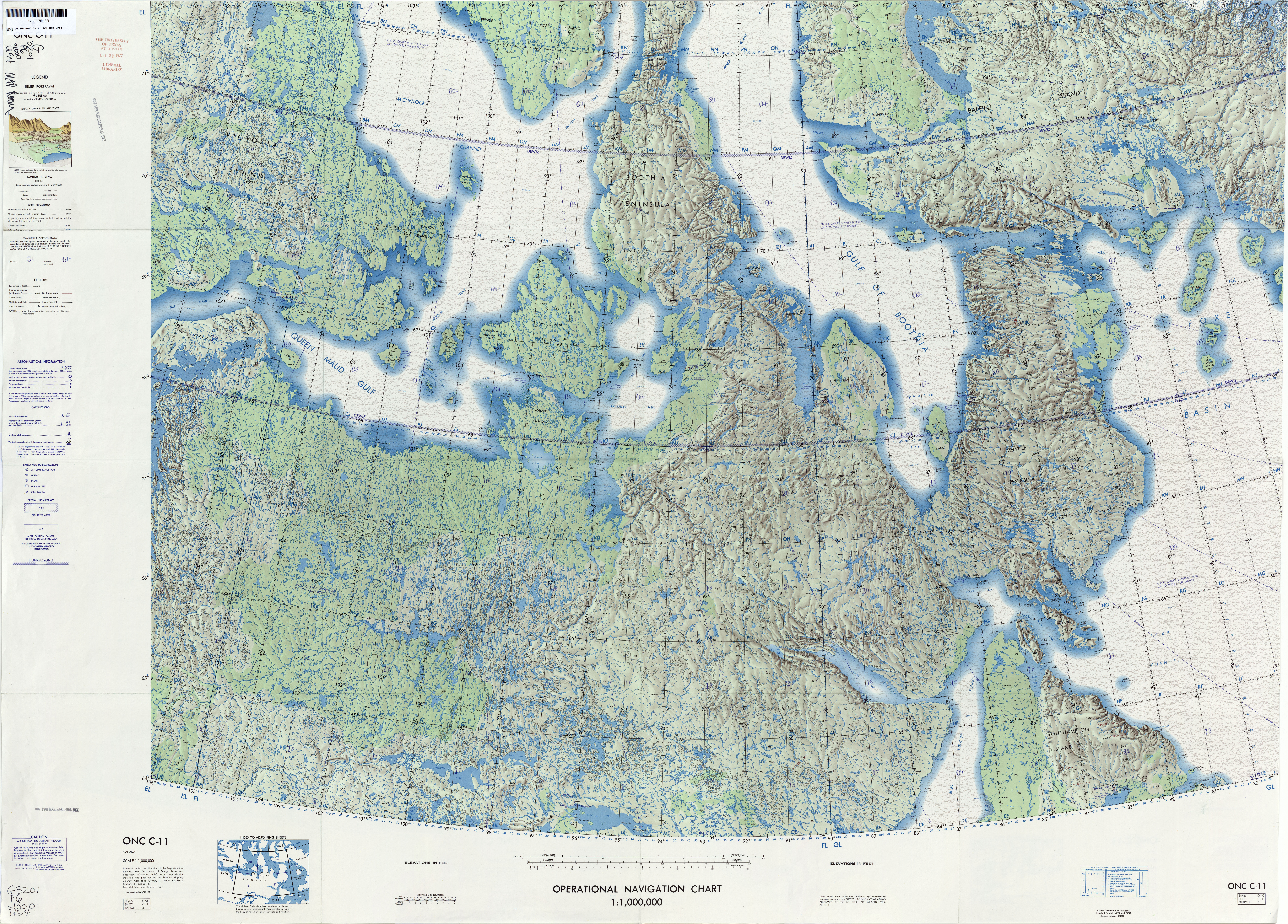 1:1,000,000 scale Operational Navigation Chart, Sheet C-11, 2nd edition. Covers Canada. Lambert Conformal Conic Projection. Standard Parallels 65 20N and 70 40N. Center longitude 93W.